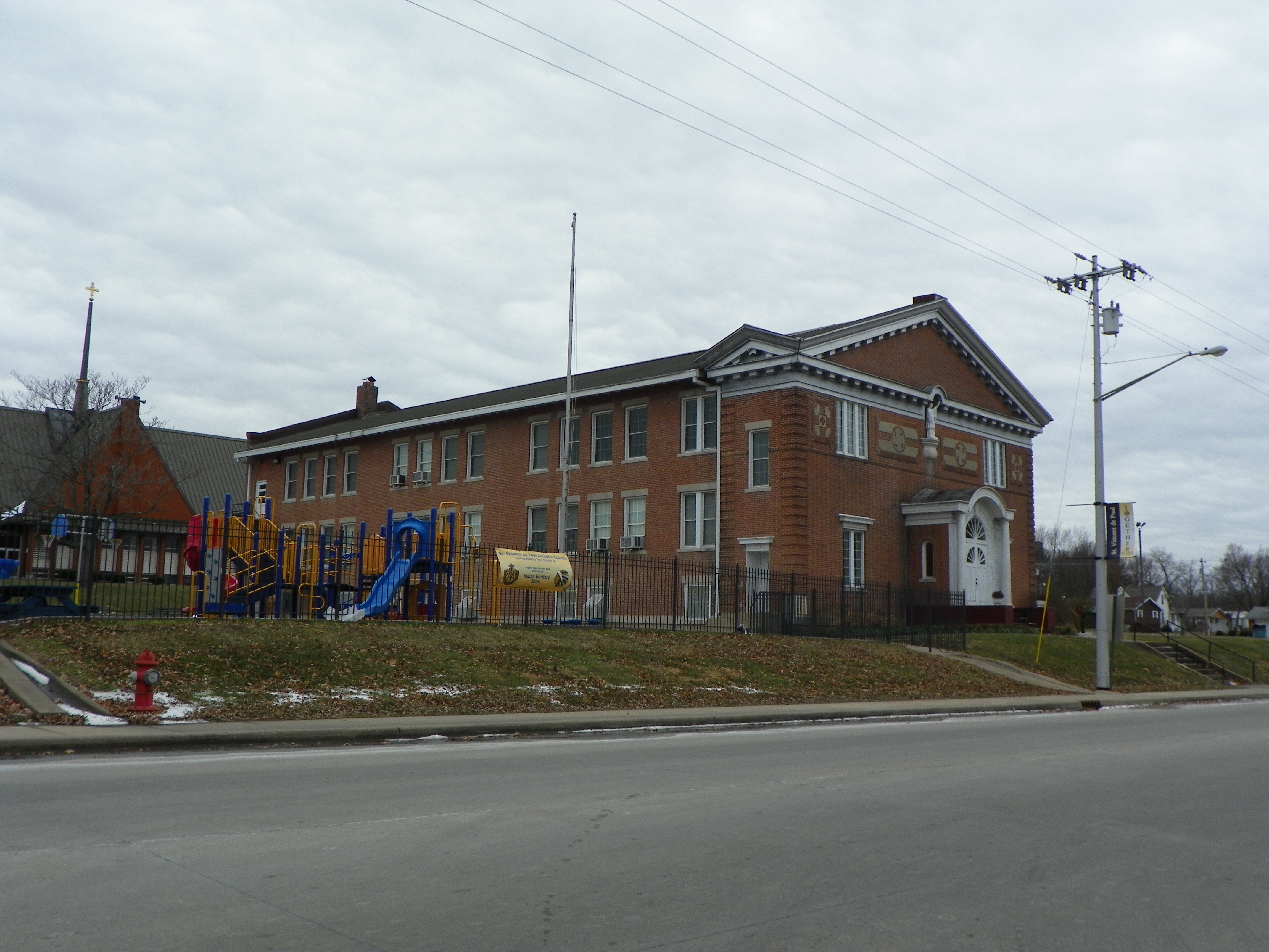 St. Vincent de Paul Catholic school (Perryville, Missouri)